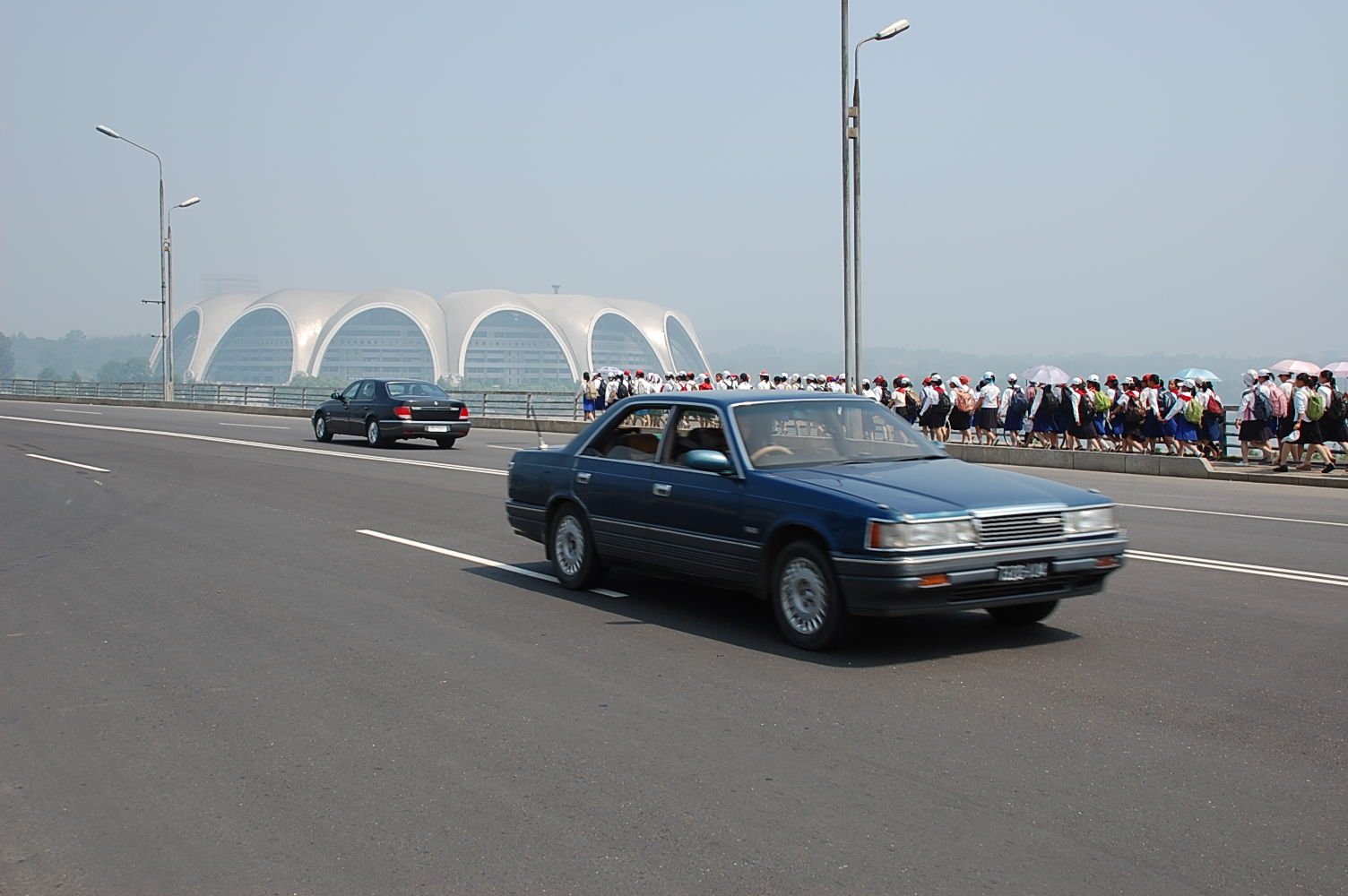 Trip to North Korea in June, 2008